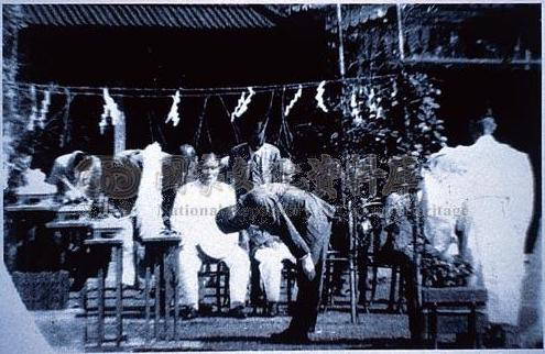 The principle Nishimura (西村仁三郎) worshiping with Yoichi Hatta sitting in the background at an entrance ceremony of the Taihoku School for Civil Engineering Measurement (台北土木測量學校).